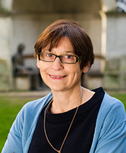 Portrait released in support of on-going improvement to Wikipedia articles, refer to